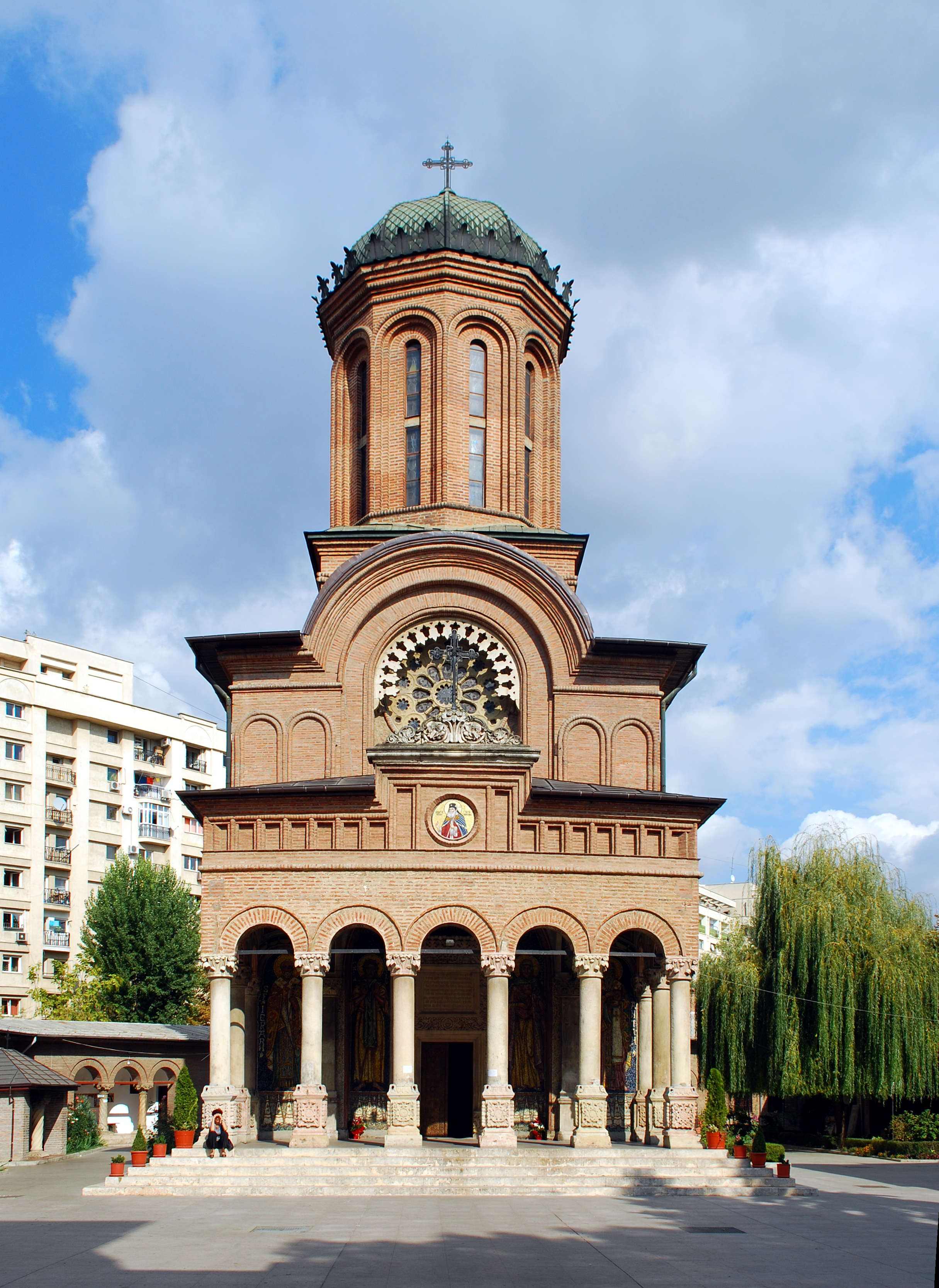 Church of All Saints, at the Romanian Orthodox monastery Antim in Bucharest, RomaniaRomână: Biserica Toţi Sfinţii, a mănăstirii ortodoxe Antim din Bucureşti, România 01